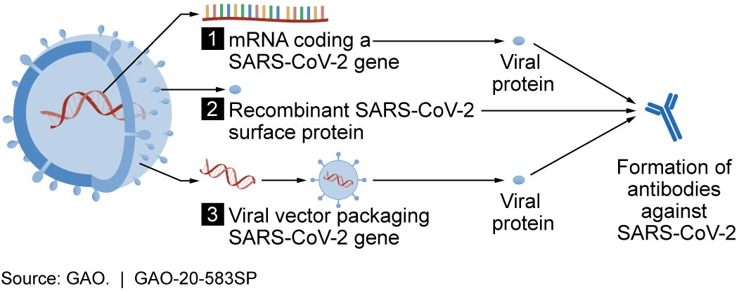 This image is excerpted from a U.S. GAO report: SCIENCE & TECH SPOTLIGHT: COVID-19 Vaccine Development